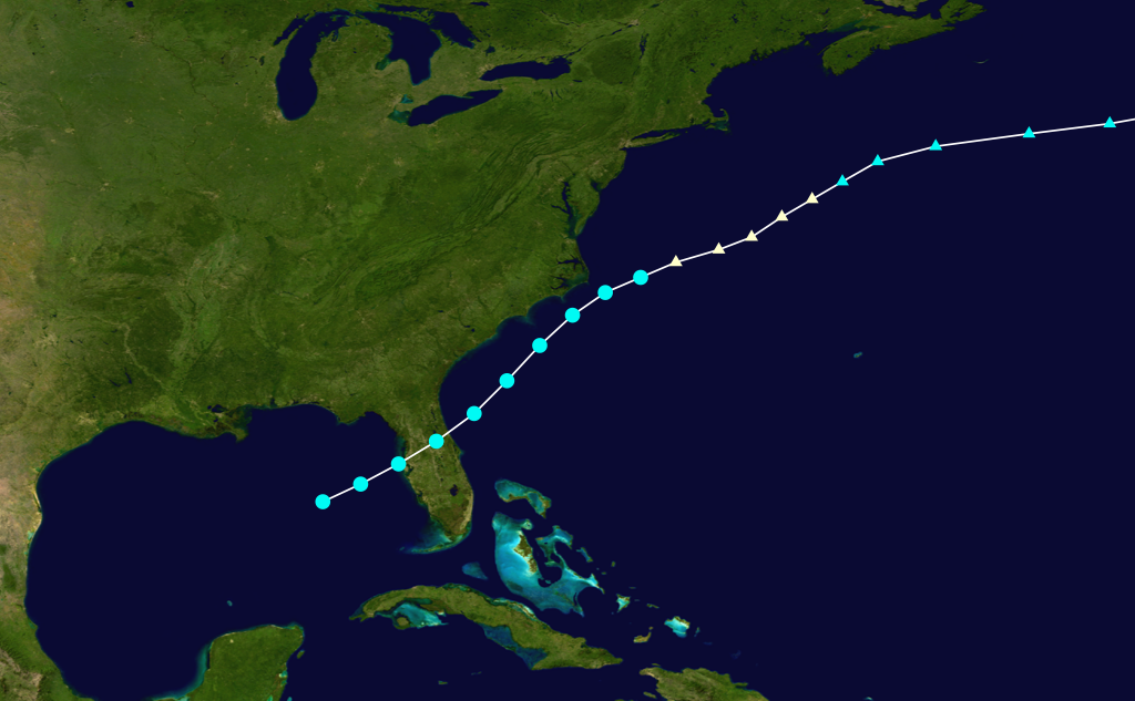 1887 Atlantic tropical storm 16 track. Uses the color scheme from the Saffir-Simpson Hurricane Scale.